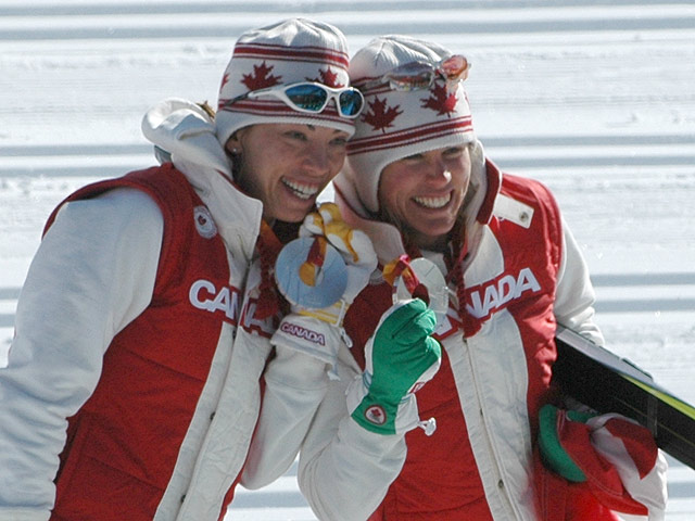 Beckie Scott and Sara Renner after receiving silver medals for the team sprint in the 2006 Winter Olympics in Torino.